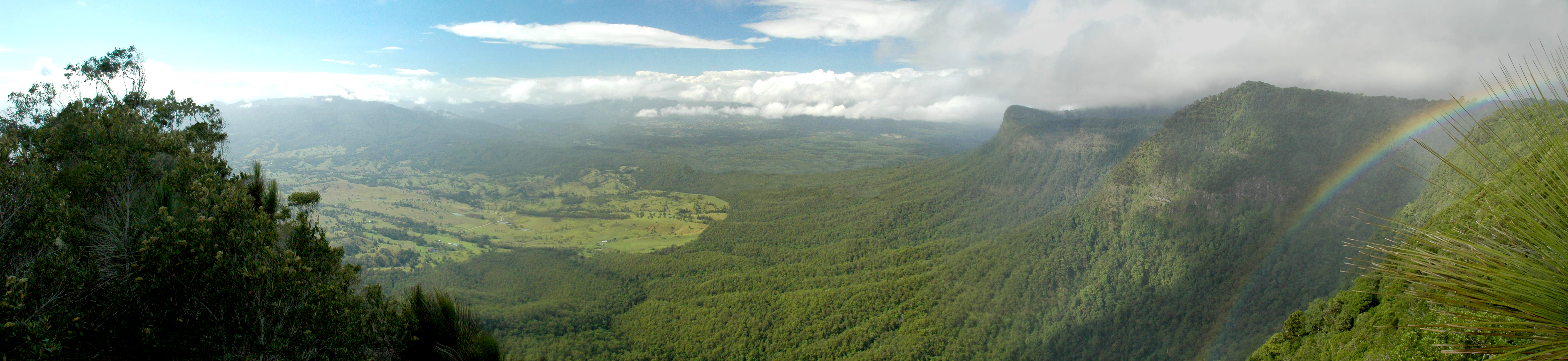 This is a picture from a lookout in Border Ranges National Park, NSW Australia looking over the Tweed valley.